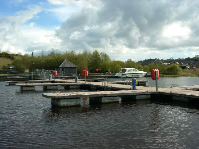 Keshcarrigan Jetty - Co. Leitrim, ROI Picture taken from the Lough. Houses of Keshcarrigan Village in the background.